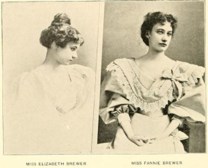 Elizabeth and Fannie Brewer